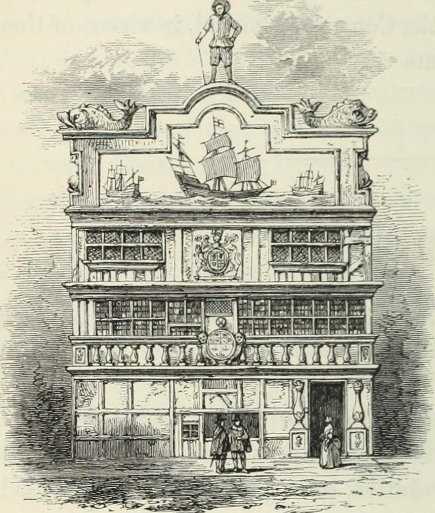 Old East India House, located on Leadenhall Street in London. It was the house of Sir William Craven before becoming the East India House. Demolished in 1799.